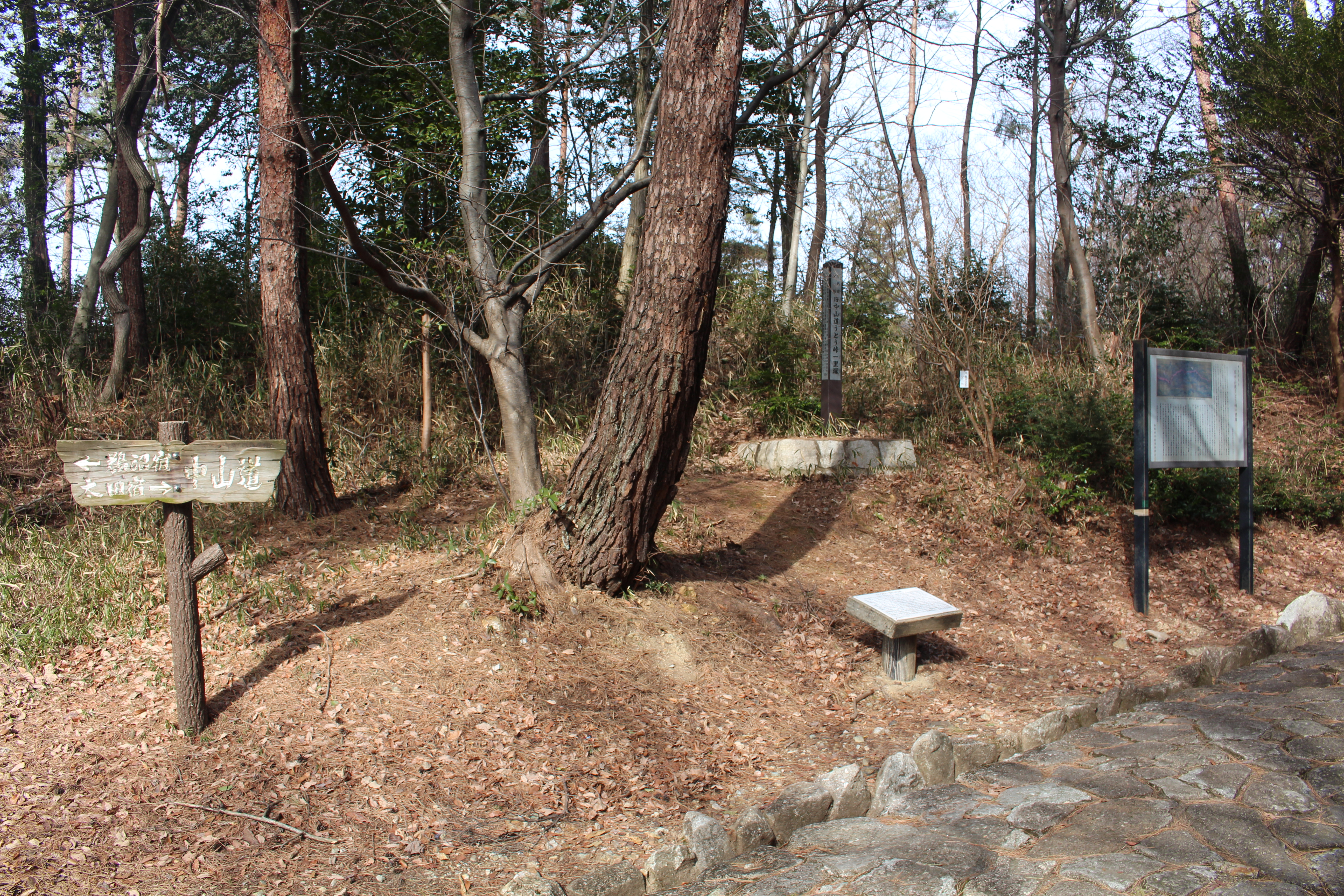 Utou Pass on Nakasendo in Kakamigahara city, Gifu prefecture, Japan.